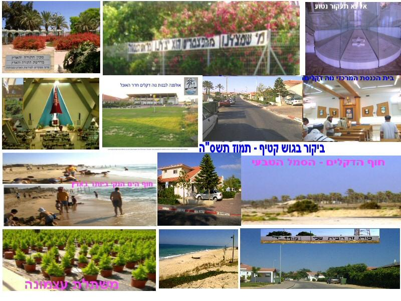 Remember_Gush_Katif.jpg